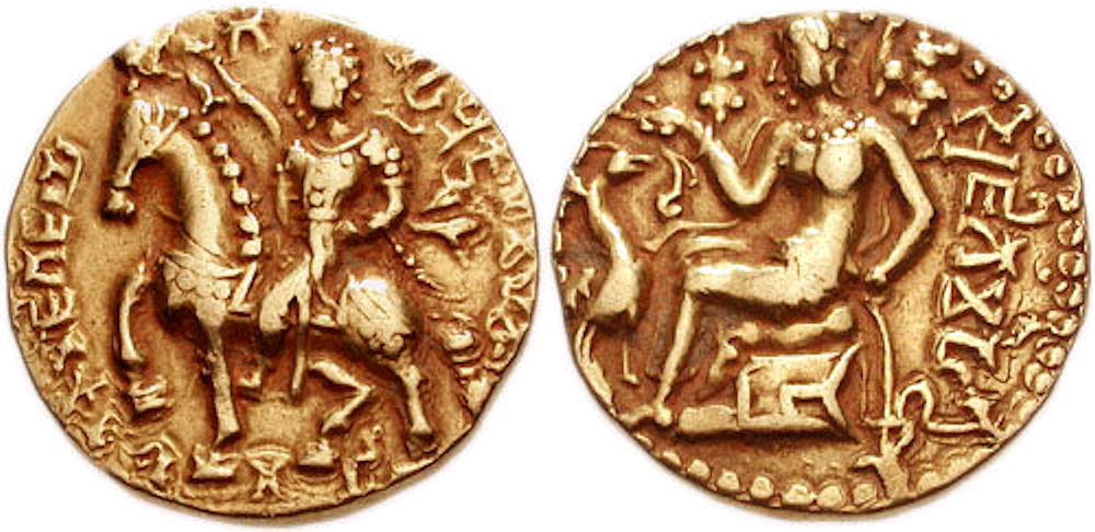 Kumaragupta I horse type Circa 414-455 CE. AV Dinar (20mm, 8.21 g, 12h). Horseman type. Kumaragupta, not nimbate, holding bow and sword, riding prancing horse to left / The goddess Lakshmi, not nimbate, seated left on draped stool, holding a lotus and feeding grapes to a peacock; five point tamgha to left, "Ajitamahendra" in Sanskrit to right.